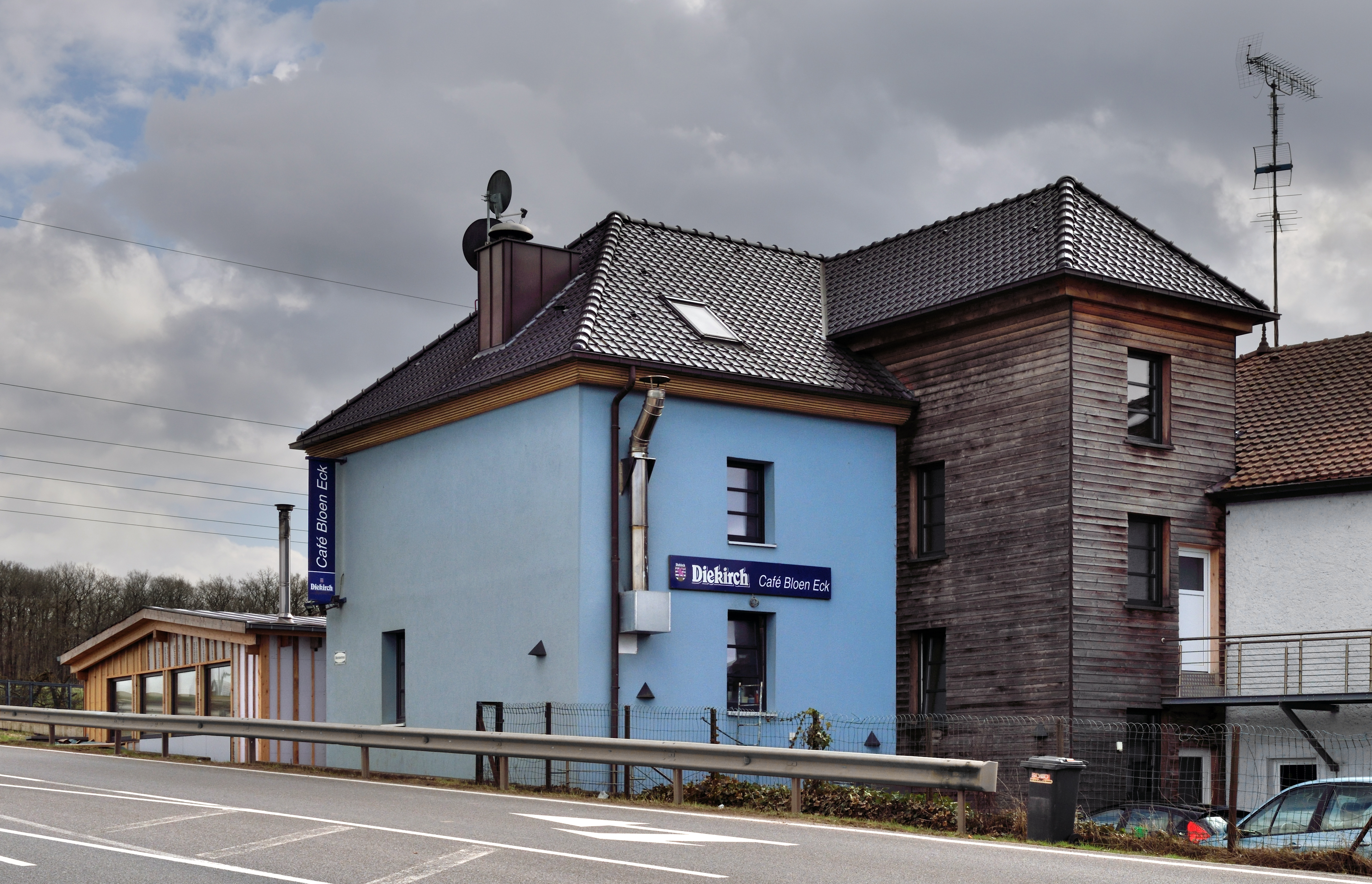 The so-called Bloen Eck (Blue Corner) restaurant in Stegen, commune of Vallée de l'Ernz, Luxembourg.